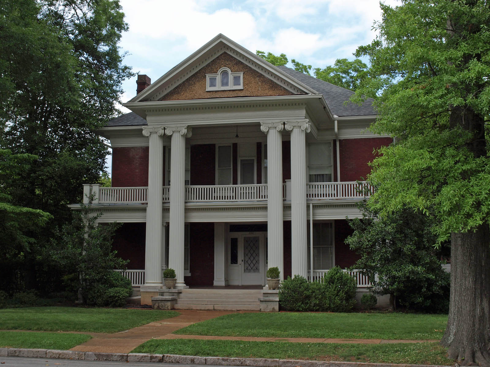 The Neal-Wiley House at 646 Jackson Street in Decatur, Alabama, part of the Albany Heritage Neighborhood Historic District